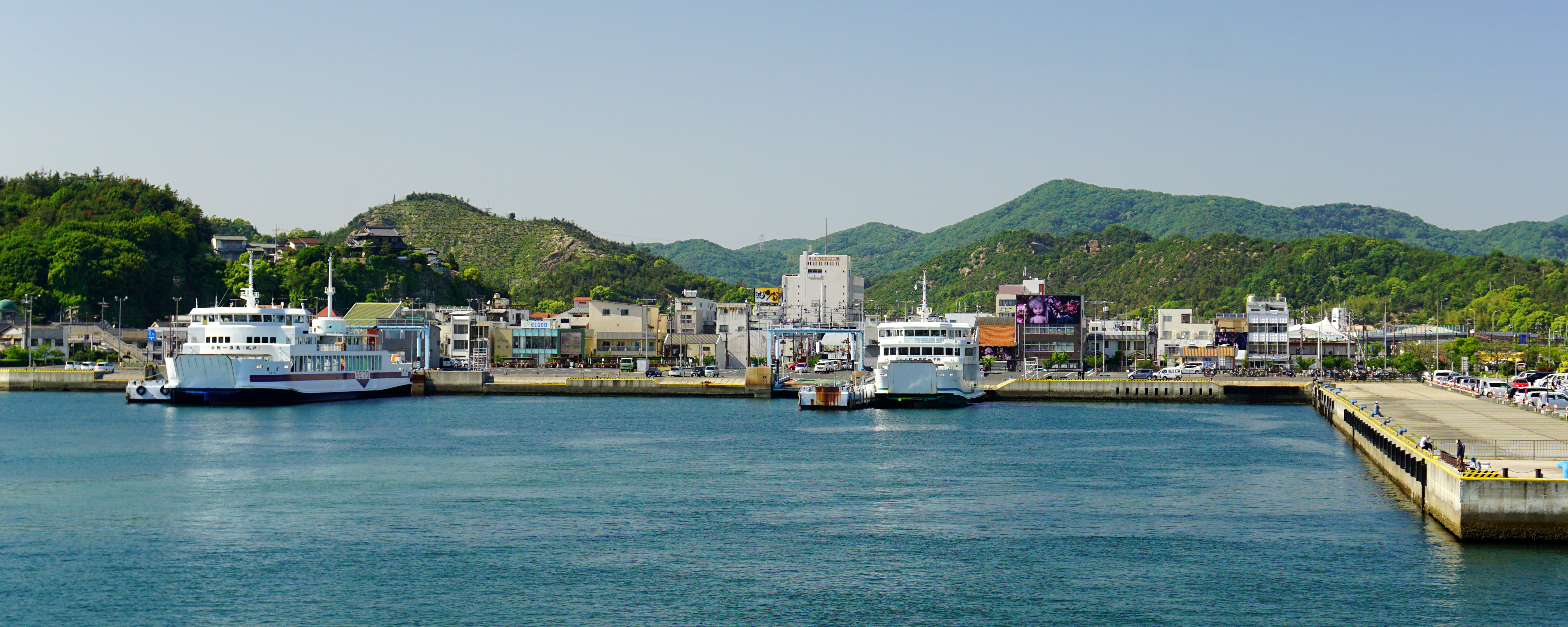 Port of Uno in Tamano, Okayama prefecture, Japan.